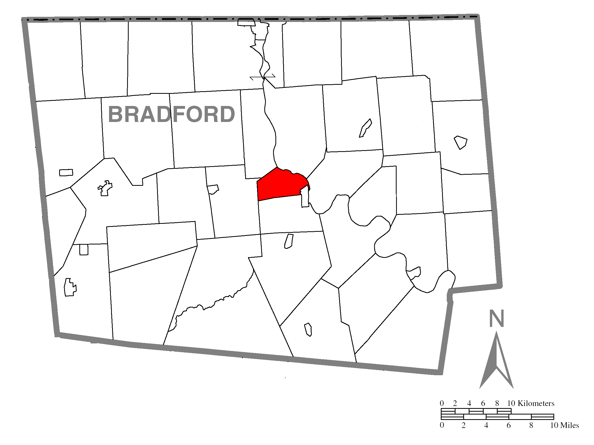 A map of Bradford County showing North Towanda Township, Pennsylvania (alternate) highlighted on the map.